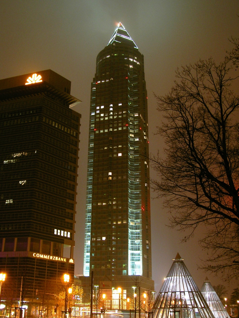 Messeturm ("Fair trade tower" at night) (1990), Frankfurt, Germany. Architect: Helmut Jahn. Neon lighting: Stephen Antonakos. Judith Dupré (2000) Skyscrapers, Black Dog Publishing, p. 102 9781579121532 Stephen Antonakos: List of Public Works. Retrieved on 2010-12-18.